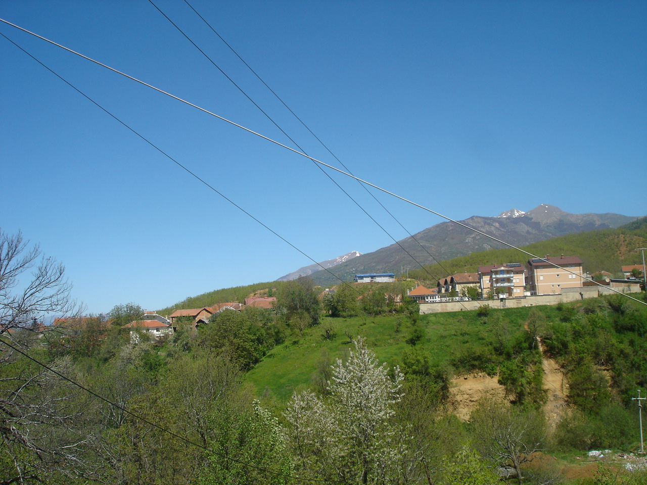 village of Balanci in Centar Župa Municipality, near Debar, Macedonia